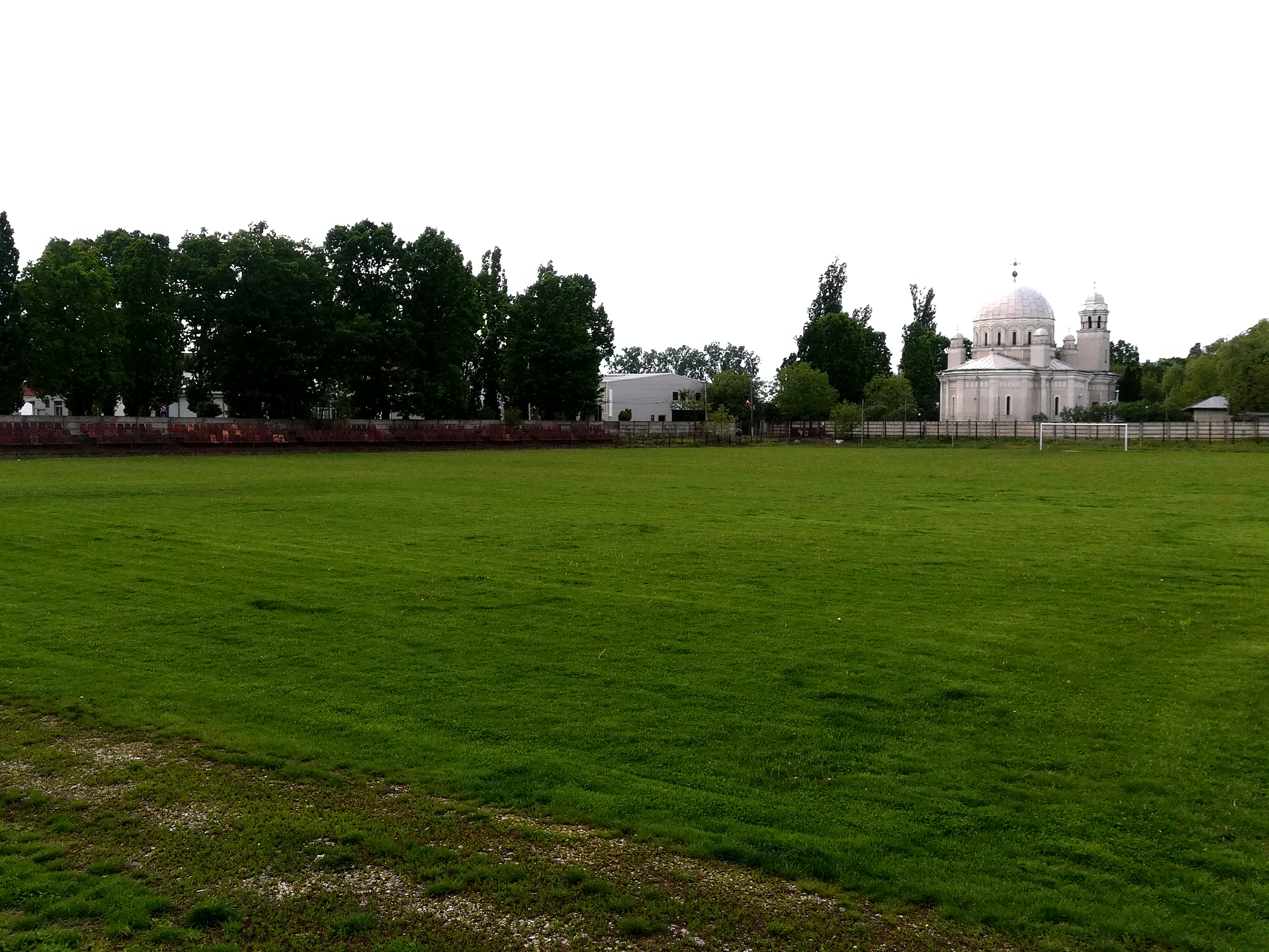 Stadionul Motorul (Oradea) in 2019.